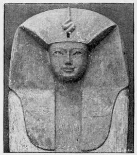 Rishi coffin of pharaoh Seqenenre of the 17th Dynasty, Second Intermediate Period. Found in Deir el Bahari cachette (DB320).